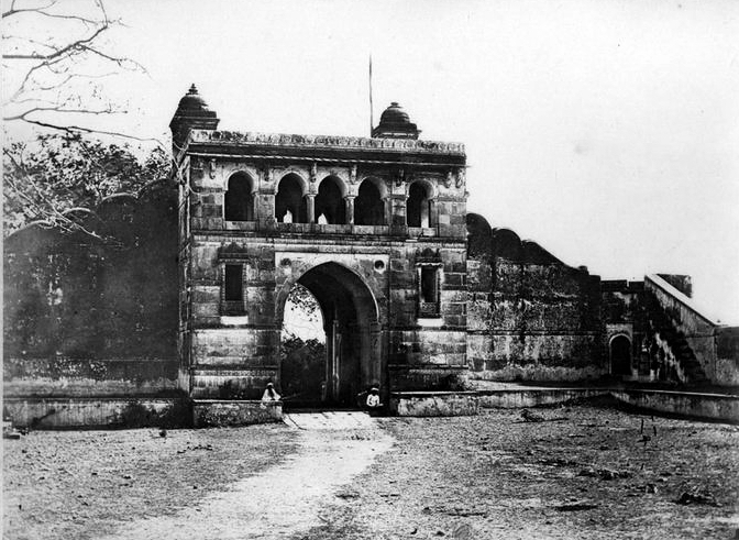 Shah alam complex